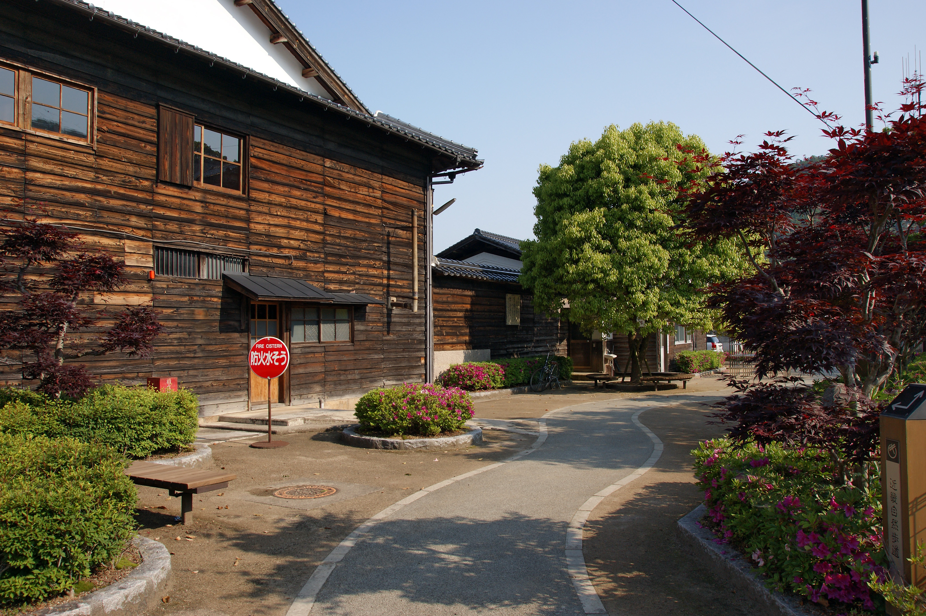 Izushi Museum in Toyooka, Hyogo prefecture, Japan